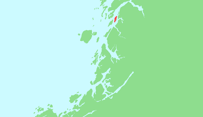 Locator map of Rødøya, Nordland, Norway